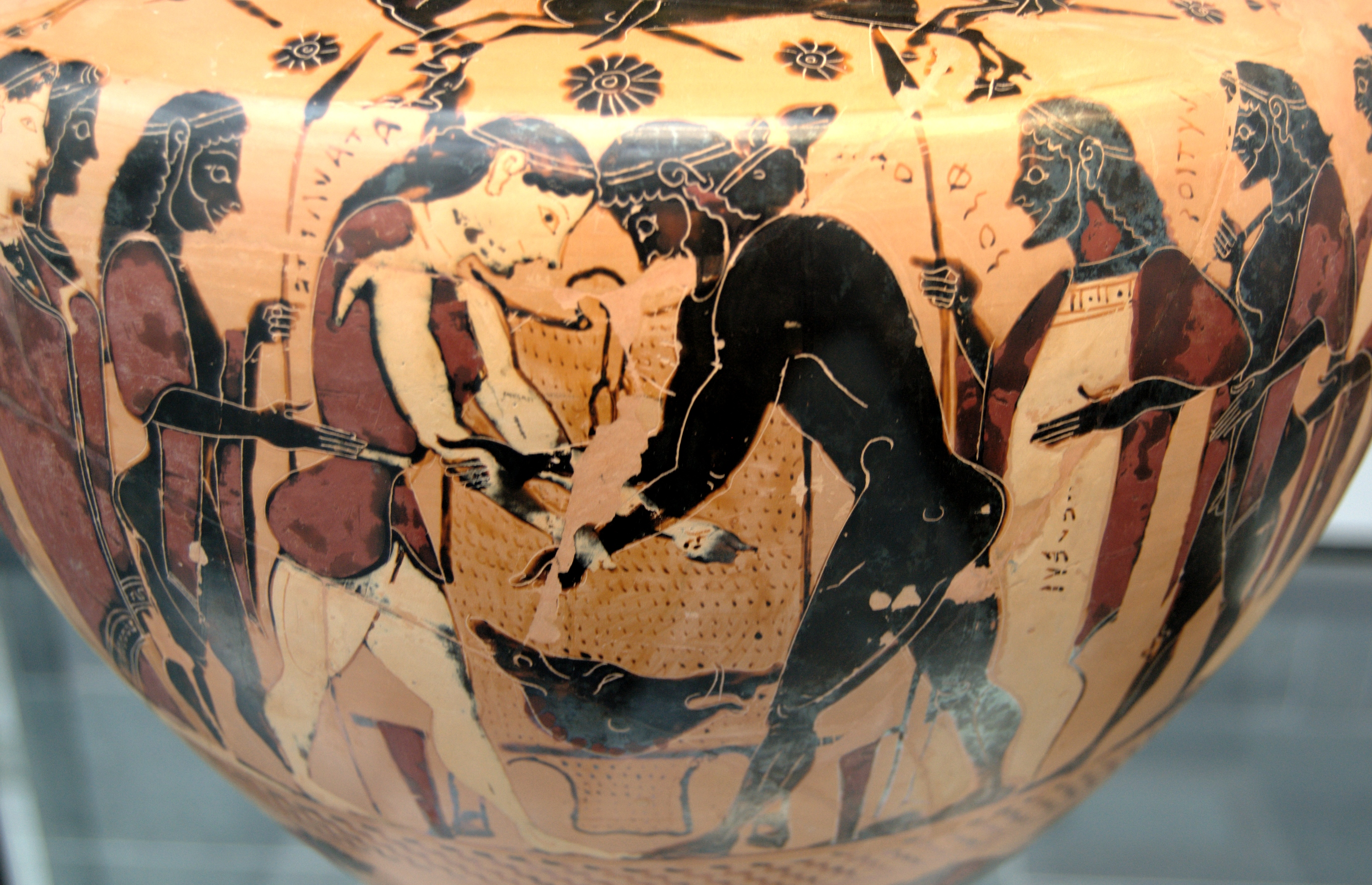 Chalcidian black-figured hydria. Side A: wrestling of Peleus and Atalanta for the funerary games of king Pelias. In background, the prize of the duel: the skin and the head of the Calydonian boar. Side B: Zeus darting its lightning on Typhon. Names inscriptions are written in the alphabet of Chalcis in Euboea. Side A